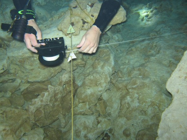 A scuba diver tying a a guide line into a cave's mainline. Also depicts a line arrow.